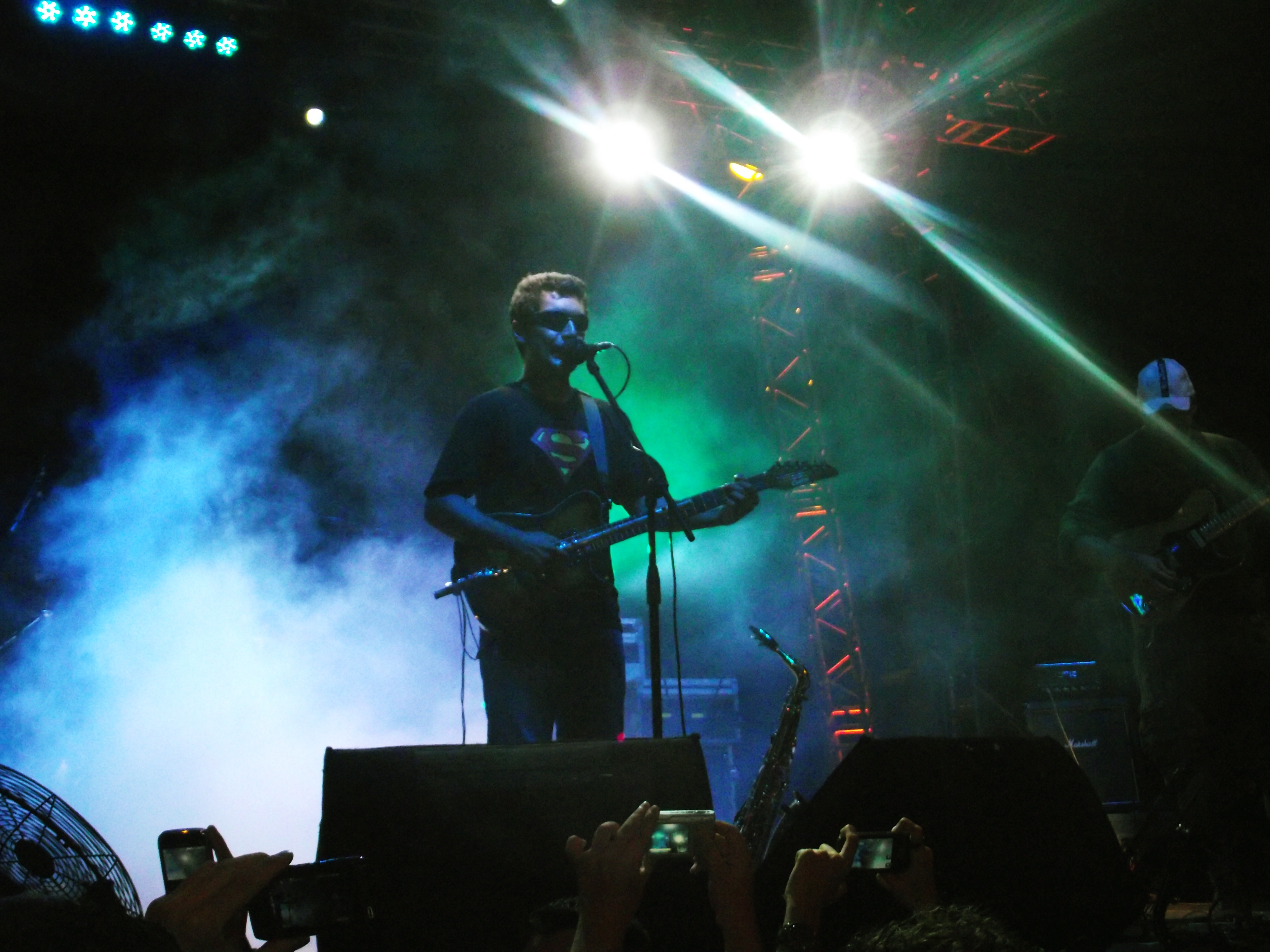 Seferihisar Konser, Sinan Kaynakçı